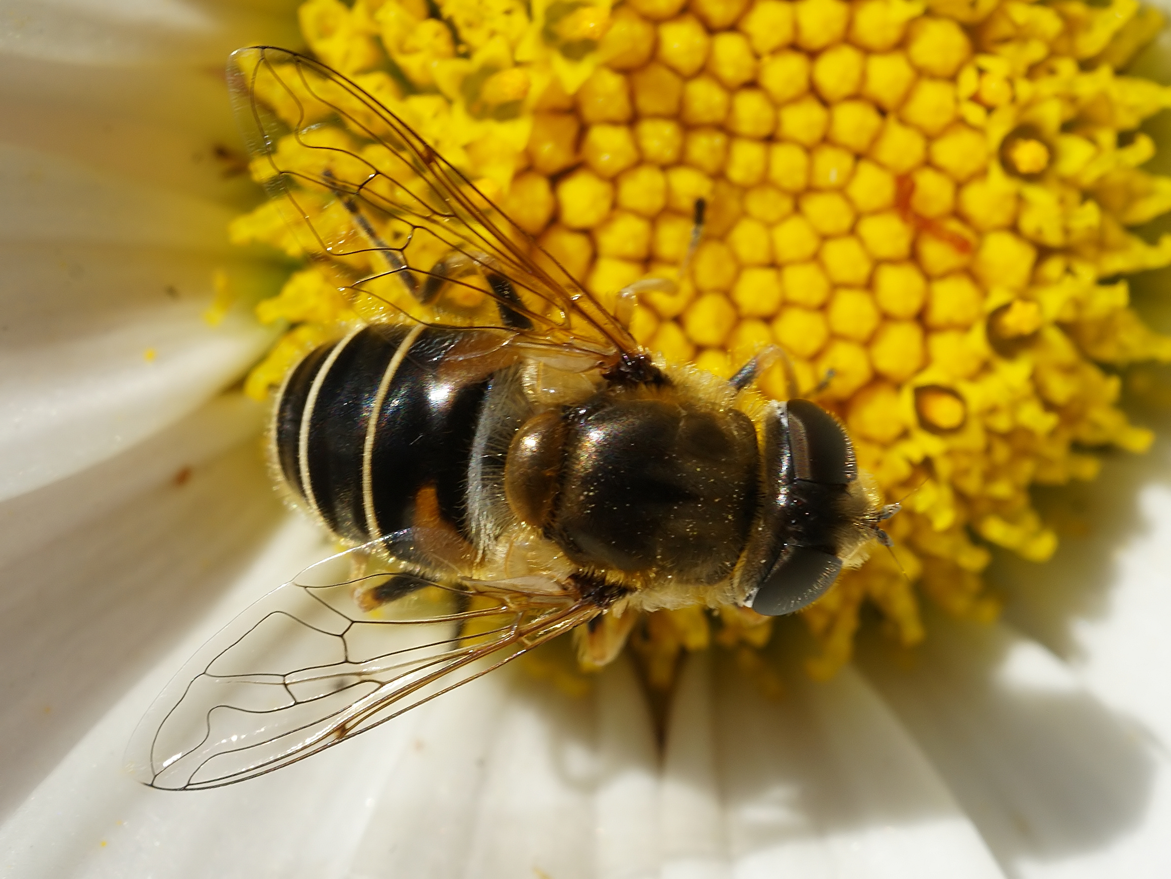 A hoverfly on oxeye daisy in Brugge, Belgium